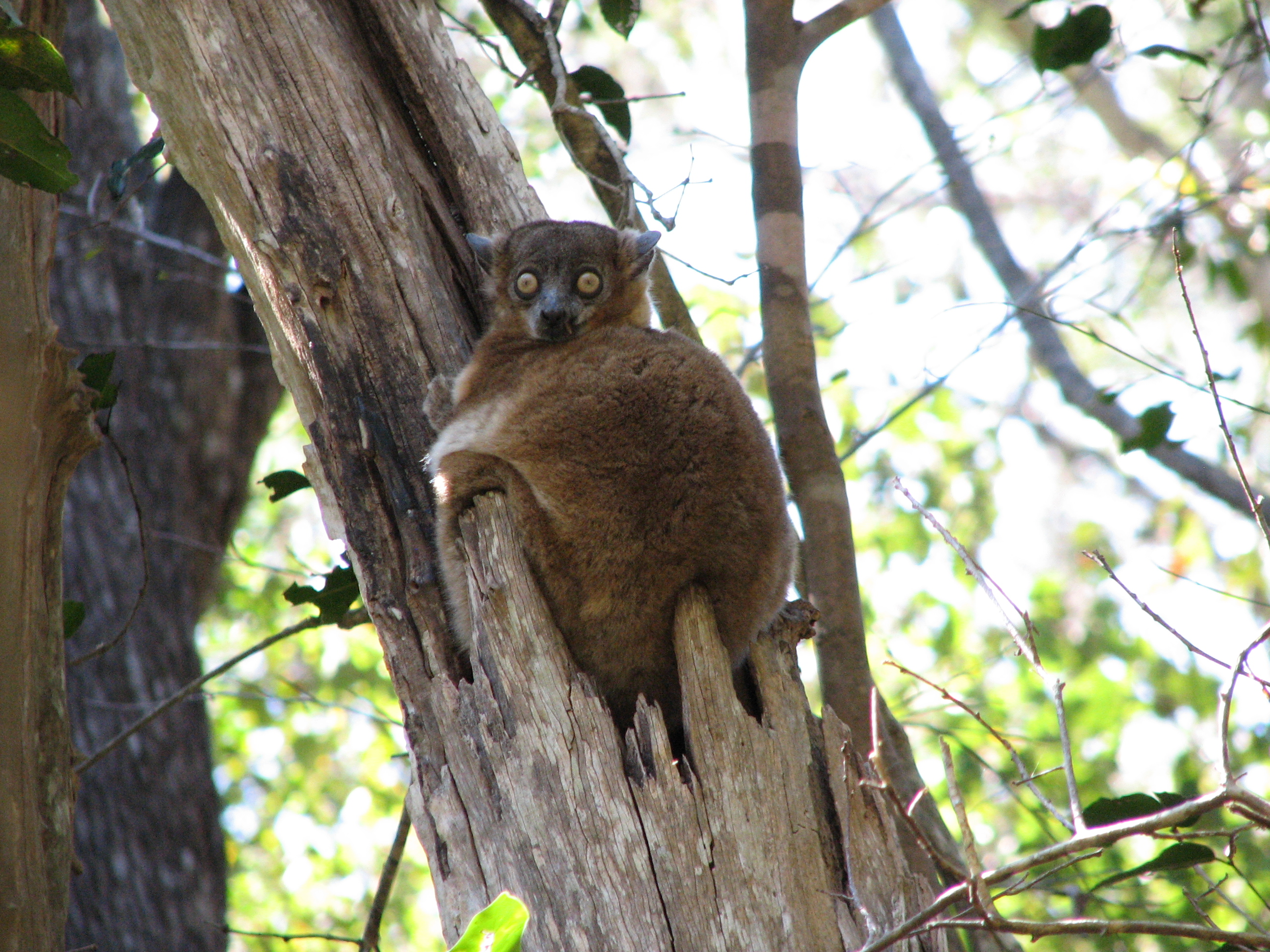 Lepilemur hubbardorum. This photo was taken on 14 August 2011 in Sakaraha, Toliara, Madagascar using a Canon PowerShot S2 IS.